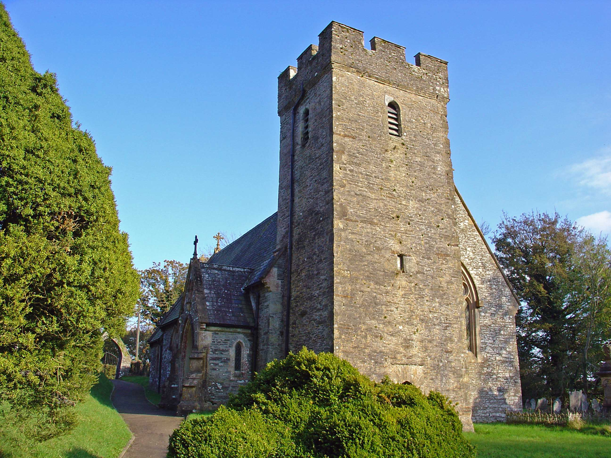 Parish church of Clydau, Pembrokeshire, Wales. Note tower.